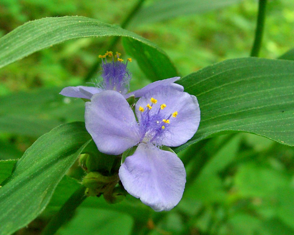 Scientific Name: Tradescantia subaspera Ker-Gawl. Common Name: Zigzag Spiderwort Certainty: positive (notes) Location: Appalachians; Pisgah NF; Snowbird Date: 20060613